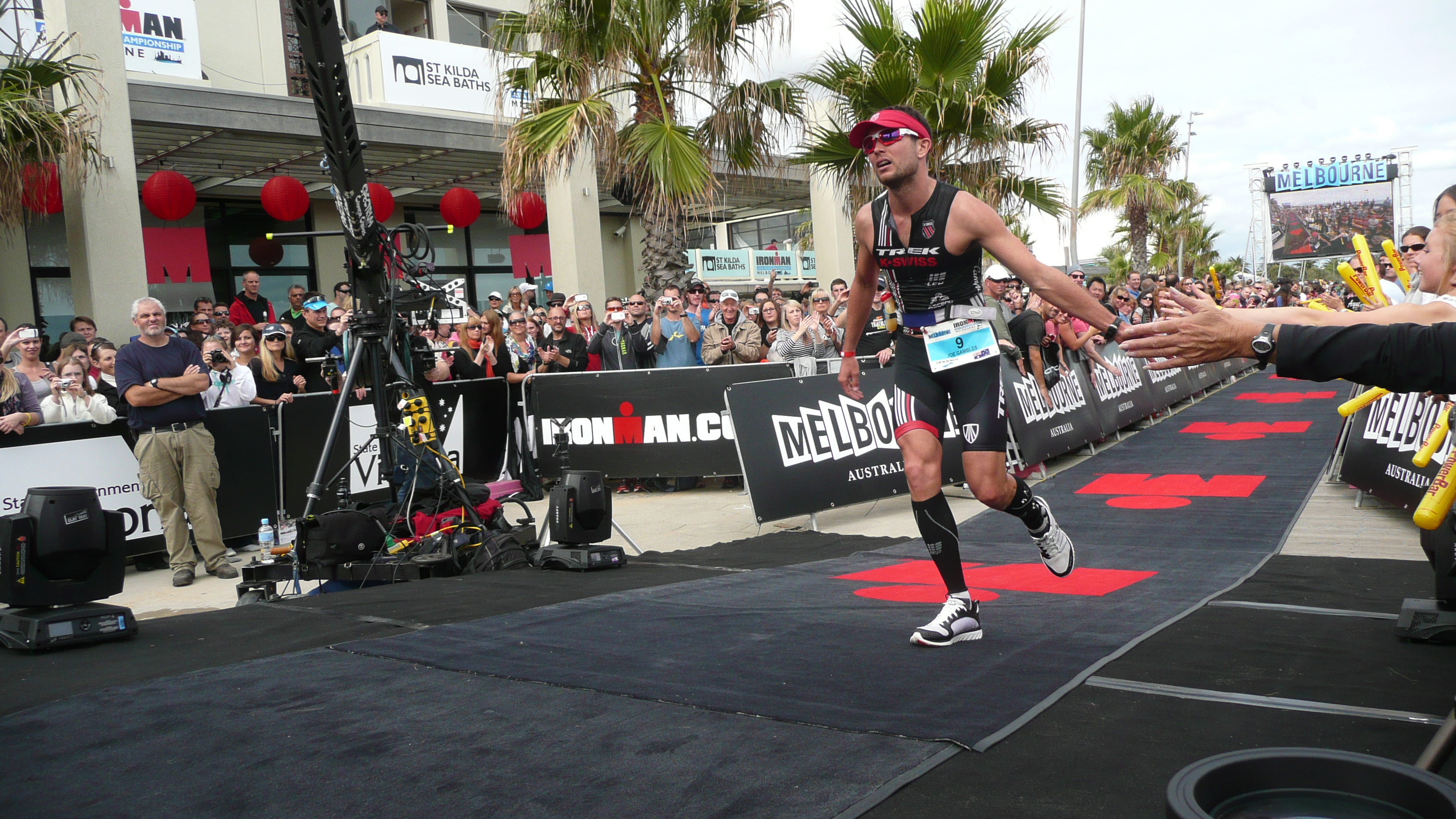 Joe Gambles finishing at Ironman Melbourne 2012